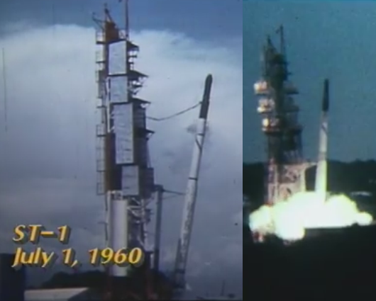 Scout ST-1 rocket. Waiting on the launch pad (left), and just after launch (right), July 1, 1960.